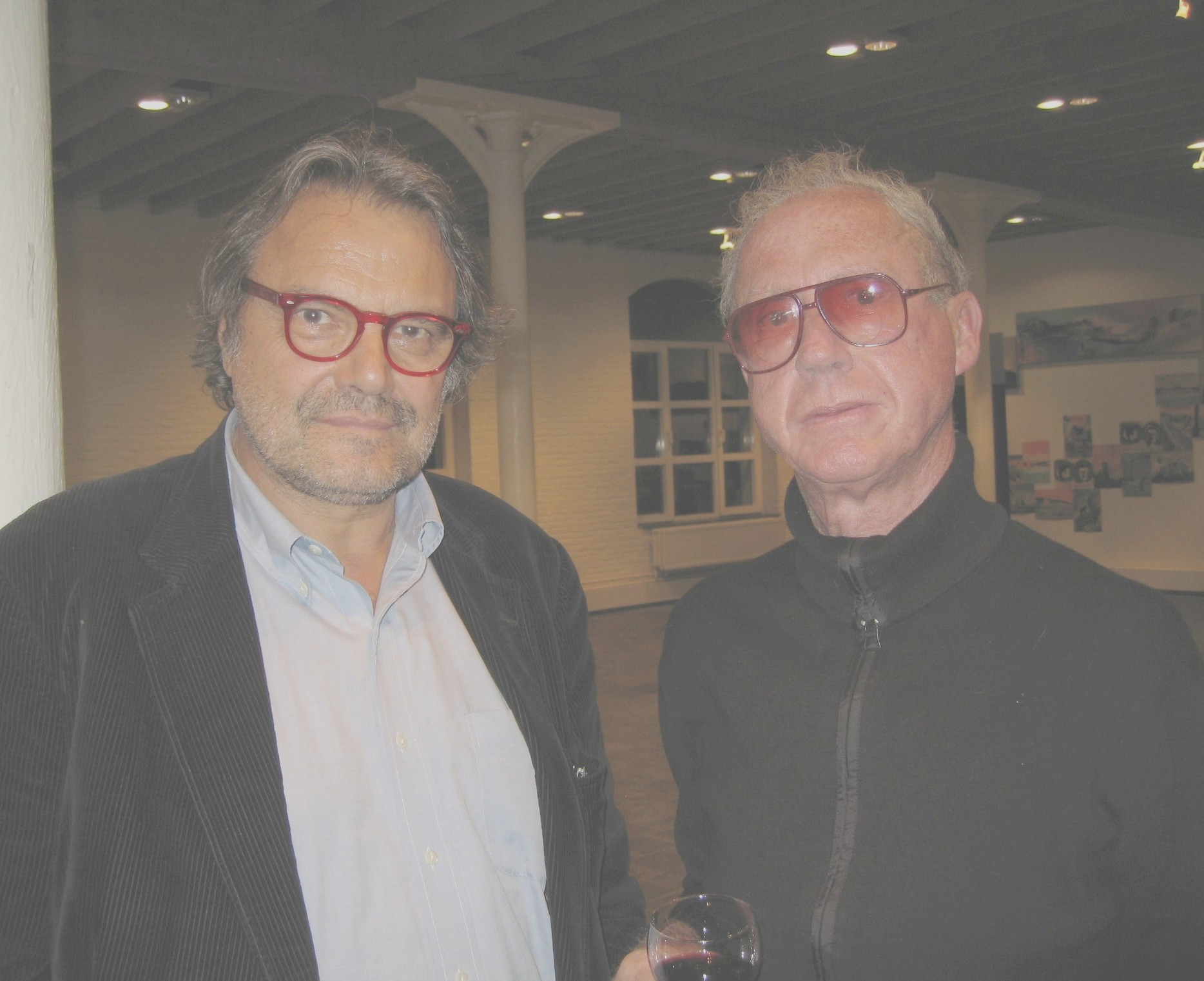 Erik Pevernagie with Oliviero Toscani